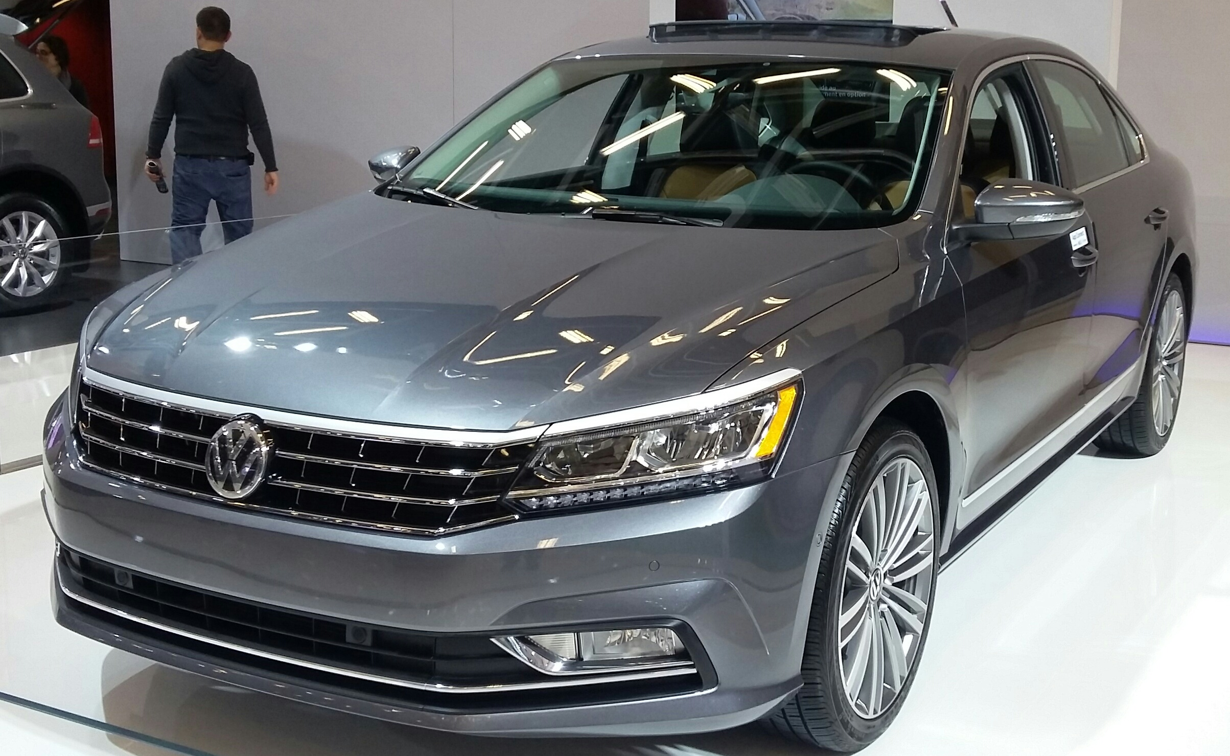 2016 Volkswagen Passat photographed in Montreal, Quebec, Canada at the Salon International de l’auto de Montréal 2016.